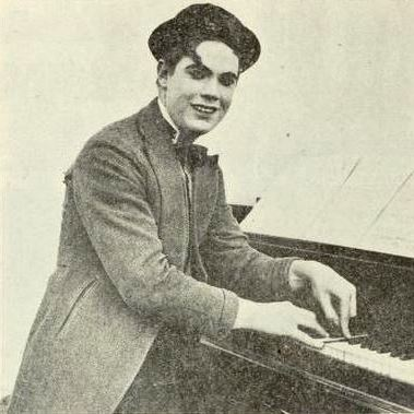 American comic actor Harry Sweet on page 2 of the April 13, 1921 Film Daily.